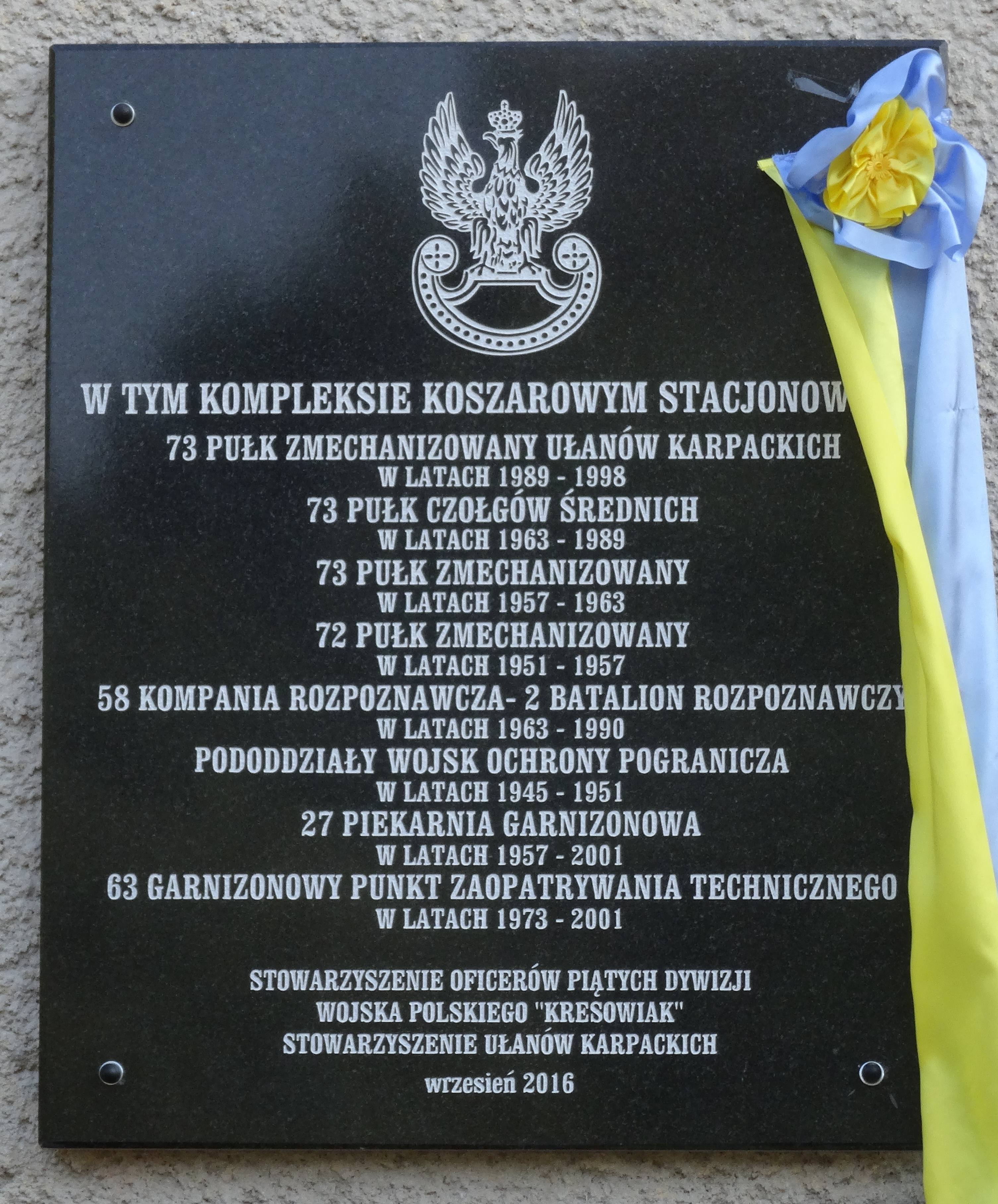 The plaque on the building of Staff Regiment